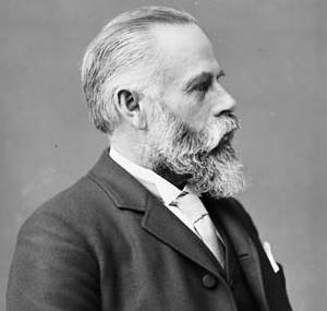 The Hon. Erskine Henry Bronson, (President, Bronsons and Weston Lumber Company) and (Minister without Portfolio, Government of Ontario)